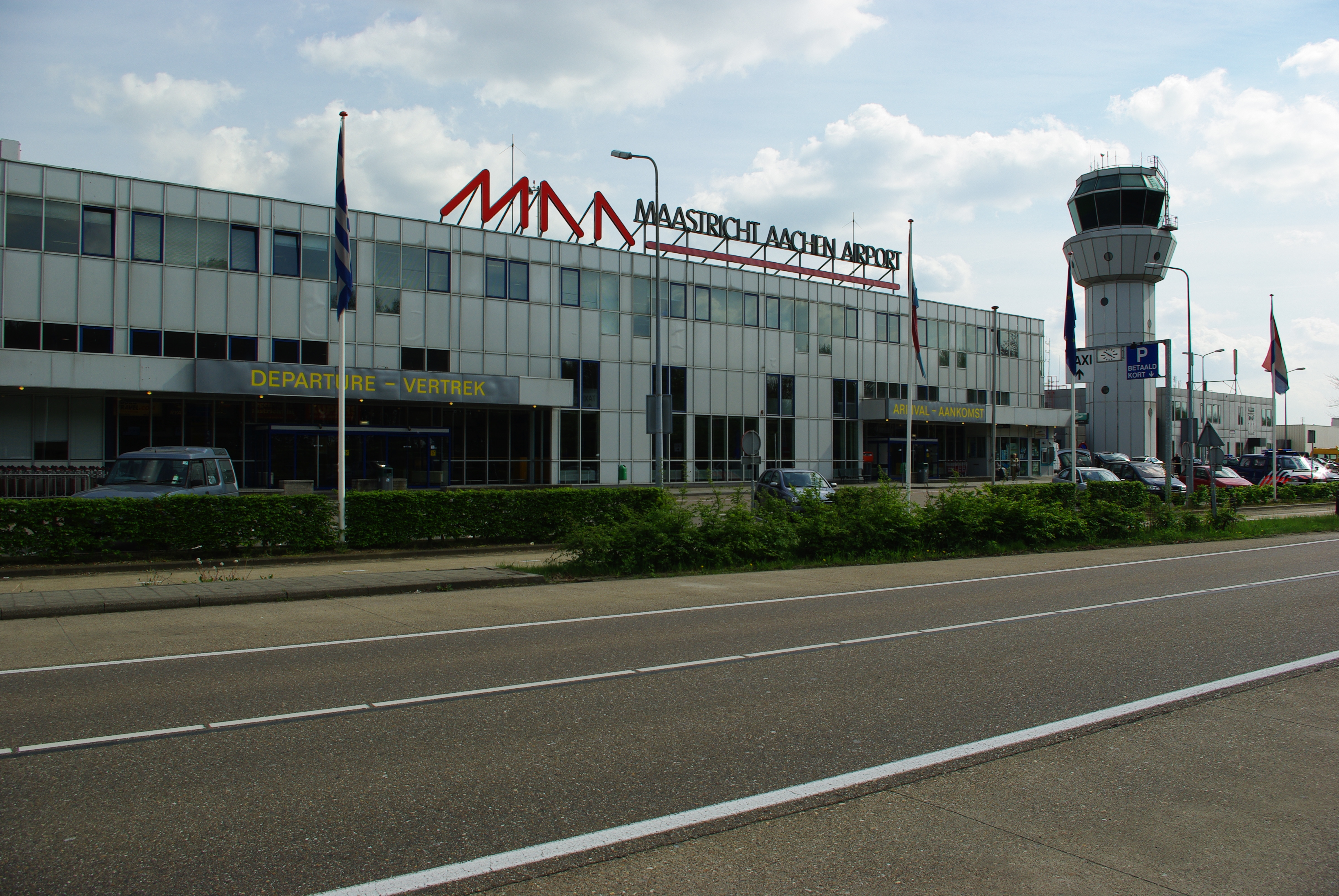 Terminal at Maastricht-Aachen Airport (EHBK)